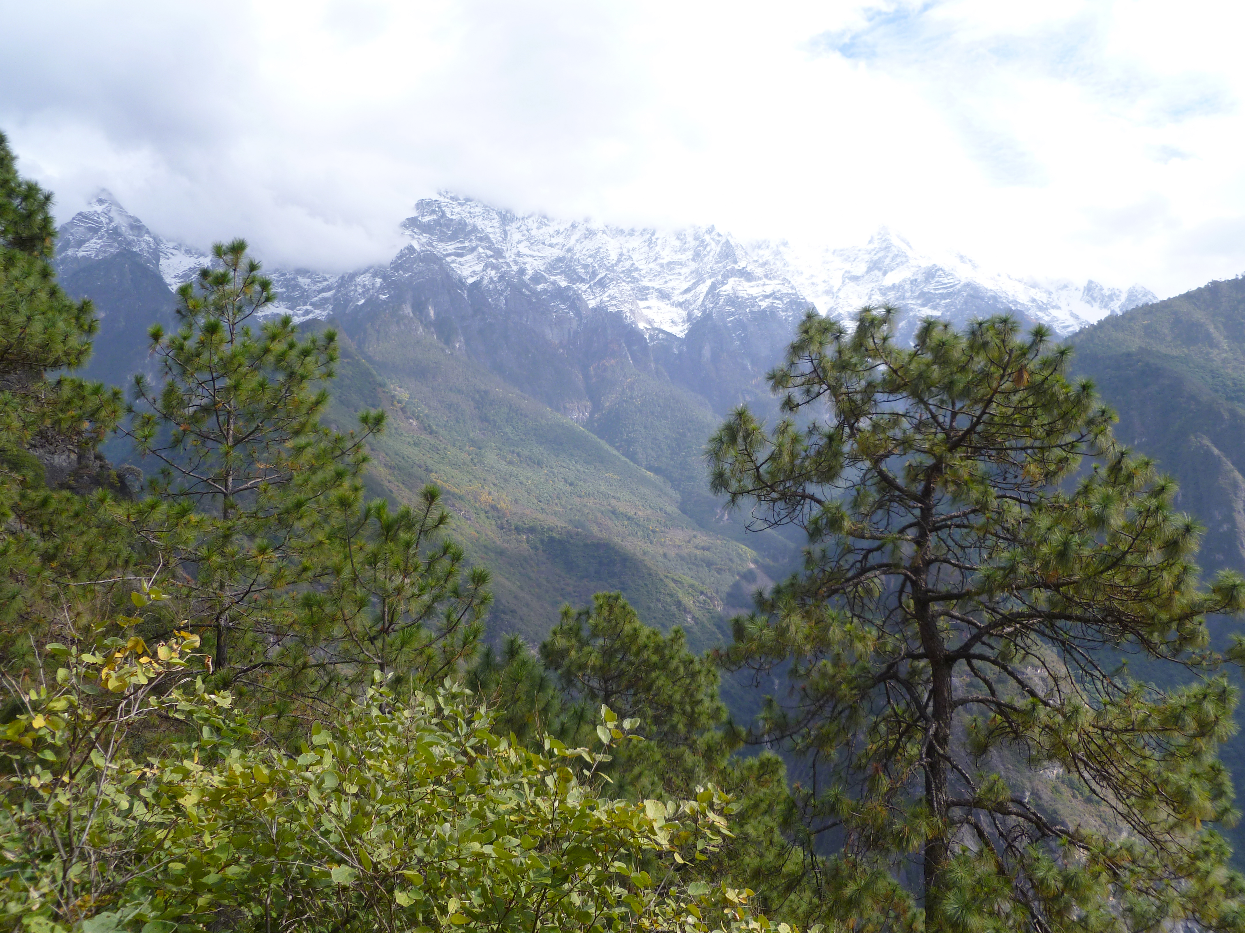 Yulongxueshan (Jade Dragon Snow Mountain), Yunnan, with Pinus yunnanensis in foreground. Photo Credit: Carrie Ashendel.